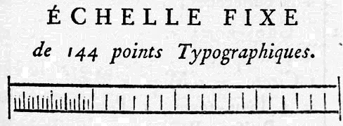 Pierre Simon Fournier's scale of his typographic point system (from Manuel Typographique, 1764), PNG ve'rsion